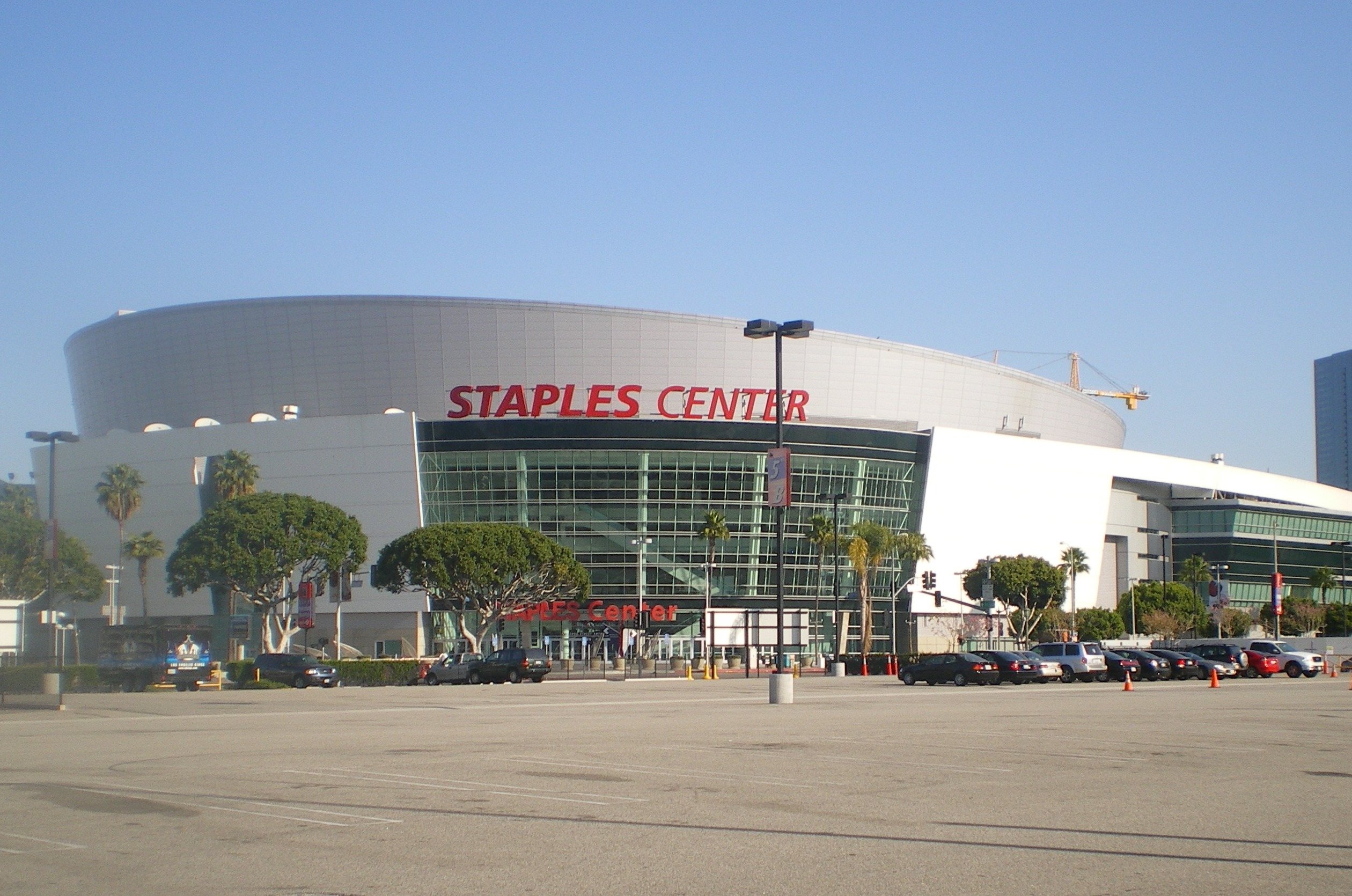 Staples Center from Pico Boulevard